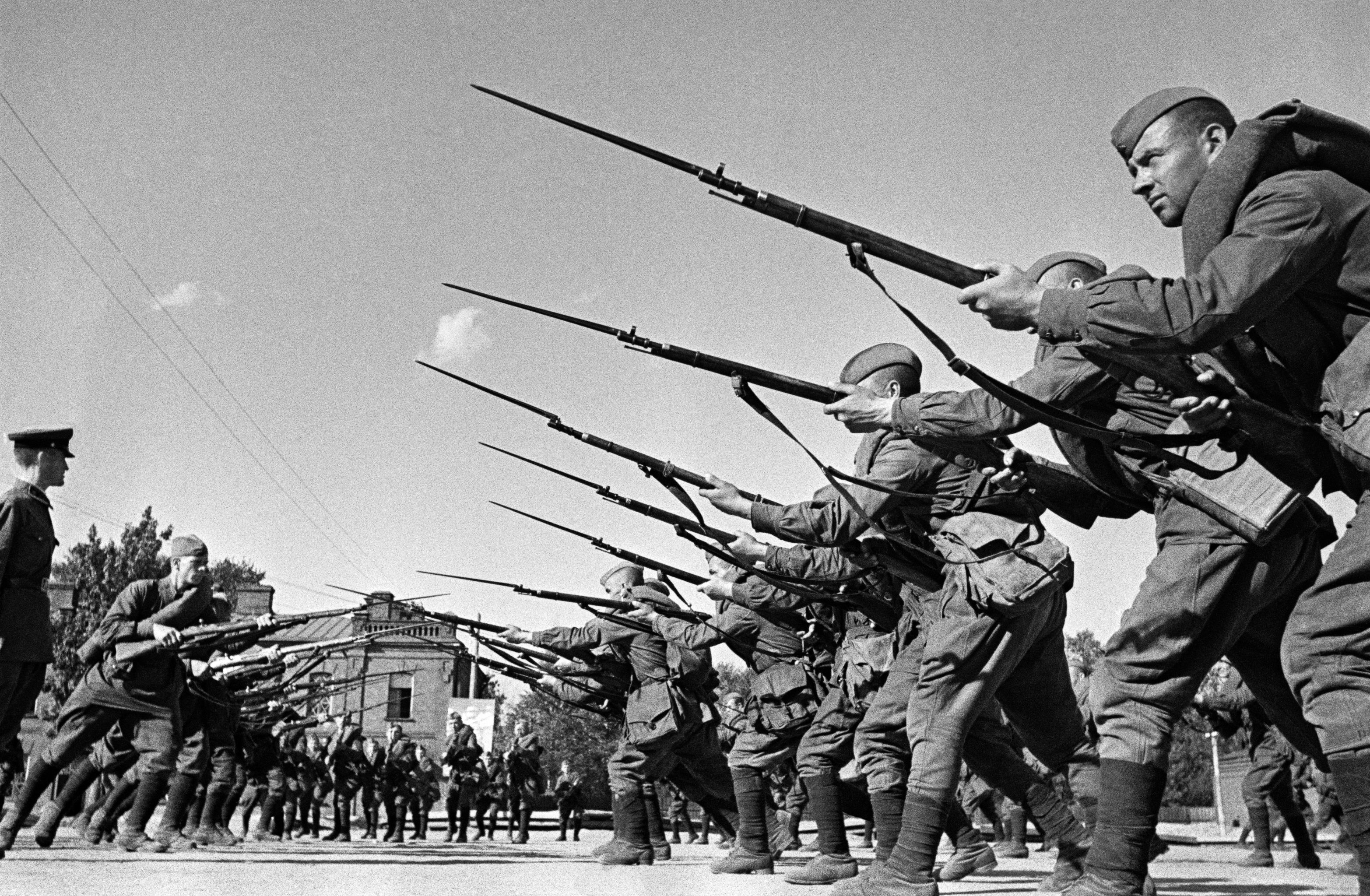 “Soldiers train before going to front line”. Soldiers of the Voroshilov Regiment training before going to the front line. // Moscow, August 1941.